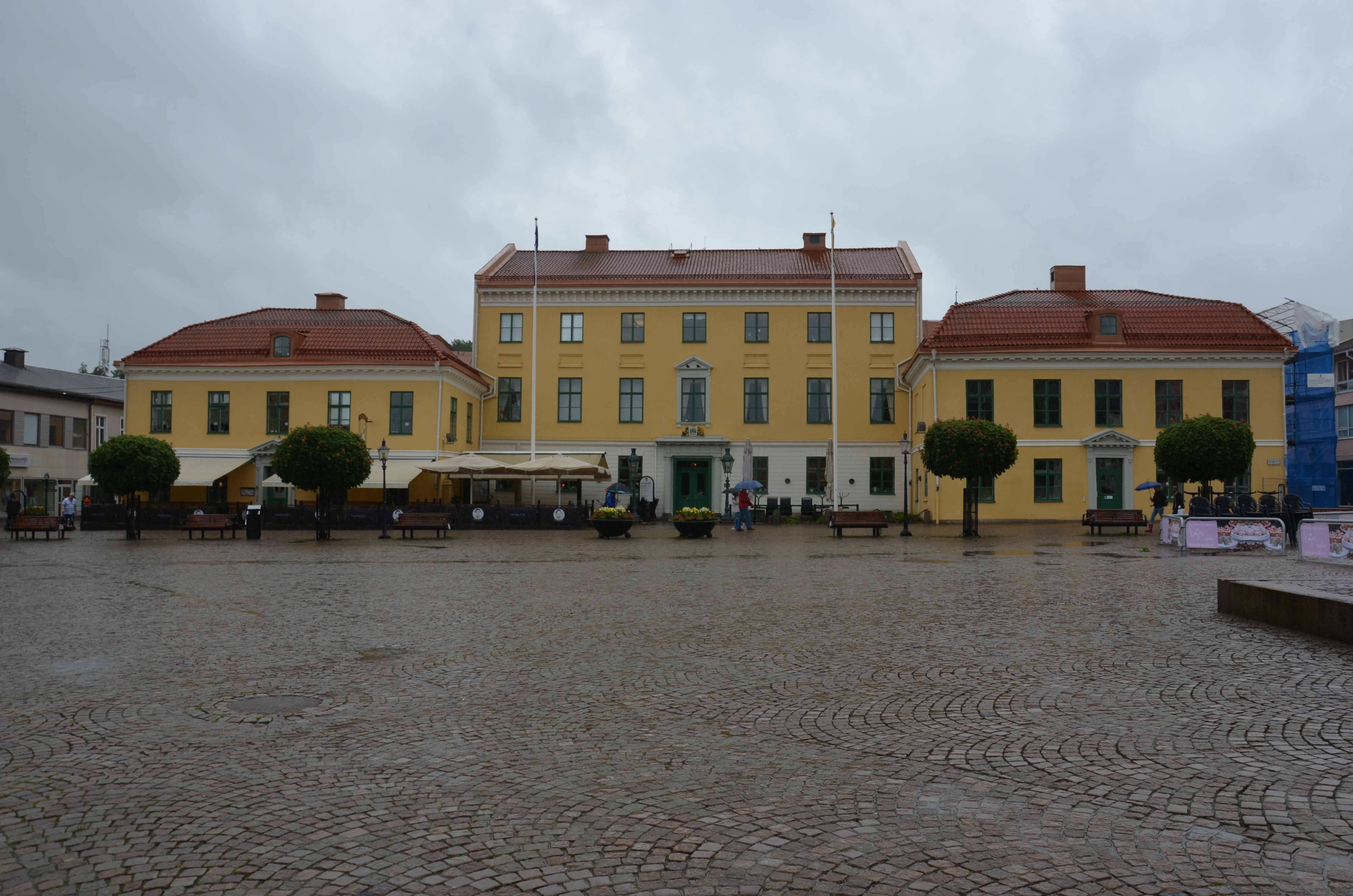 Norra sidan av Kungstorget i Uddevalla med Rådhuset